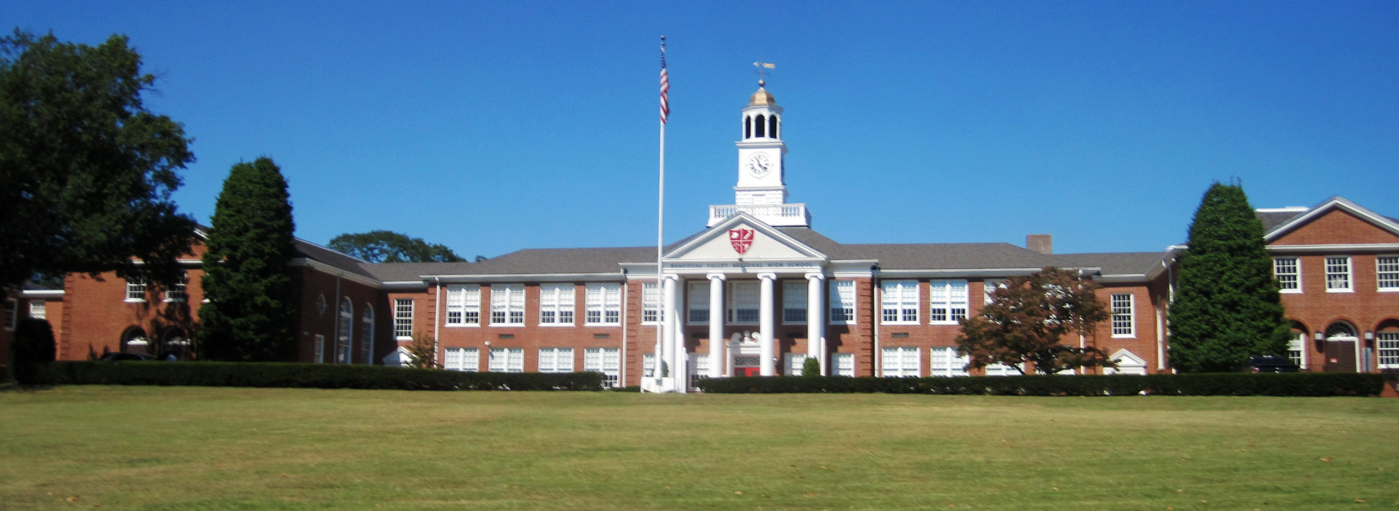 Front of the Rancocas Valley Regional High School in Mount Holly, New Jersey. Photo taken along Jacksonville Road (County Route 628).